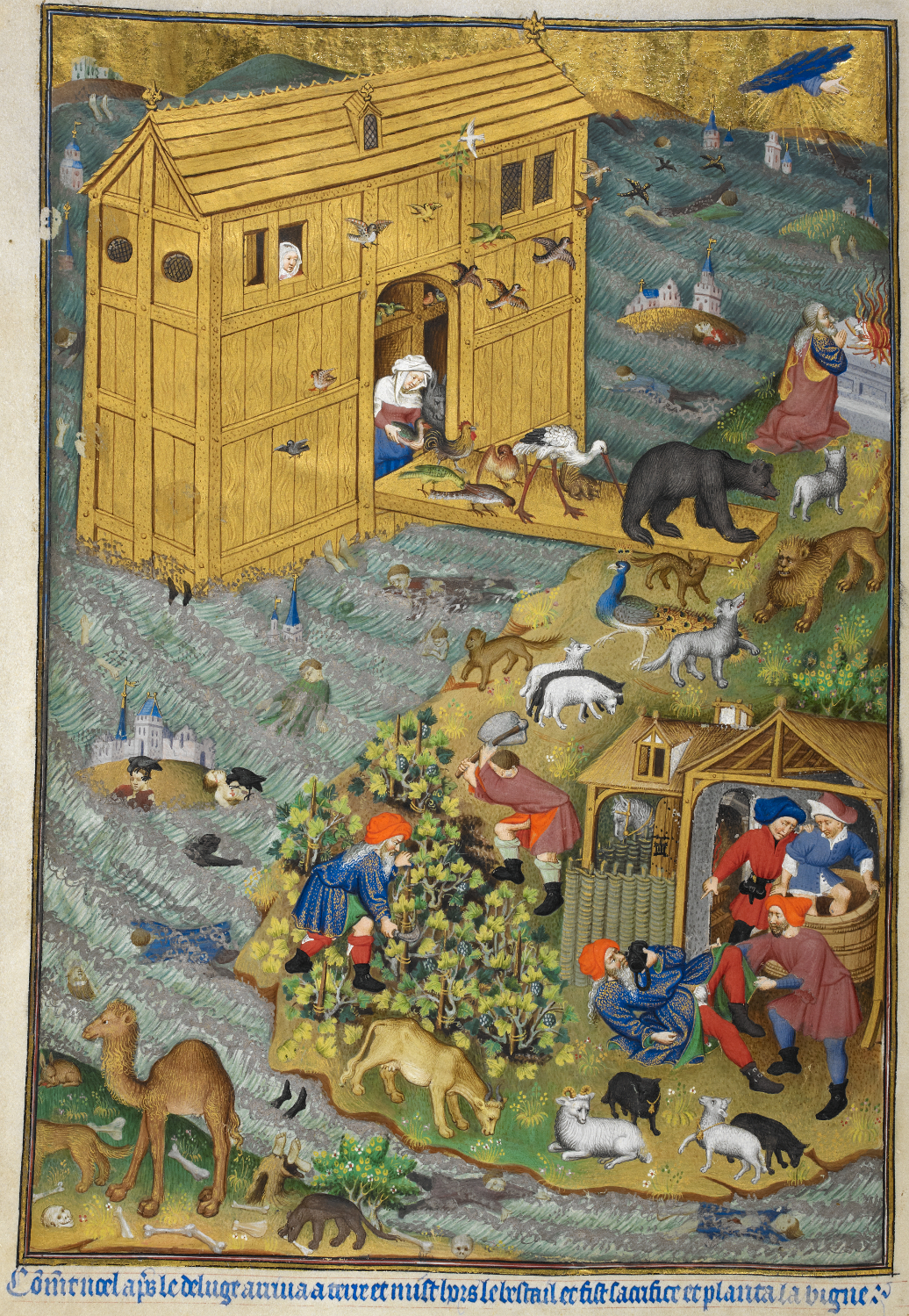 Exit from Noah's Ark; detail of a miniature from BL Add MS 18850, f. 16v (the "Bedford Hours"). Held and digitised by the British Library.